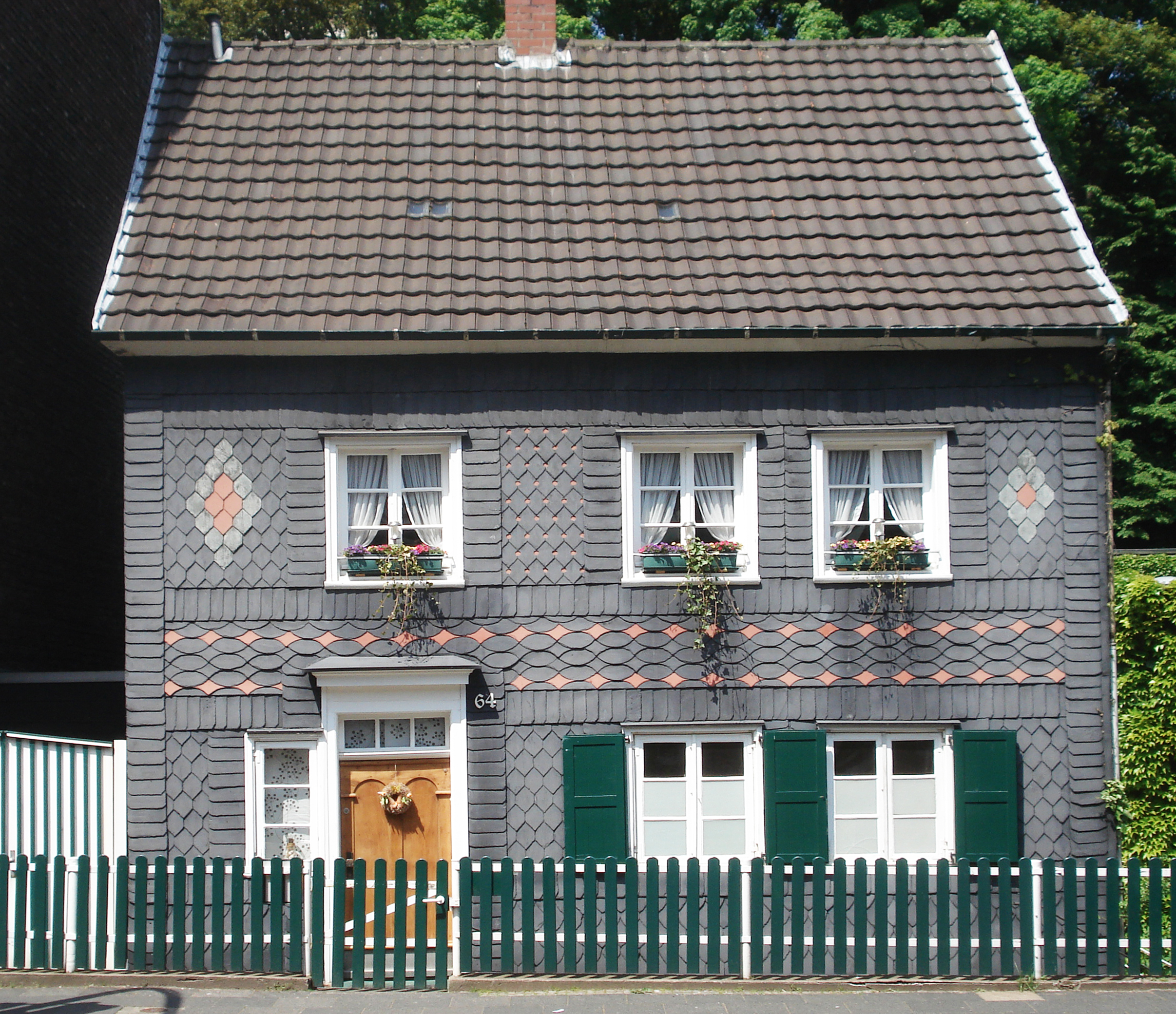 Architectural monument: 64 Selbecker Street, Hagen/Germany